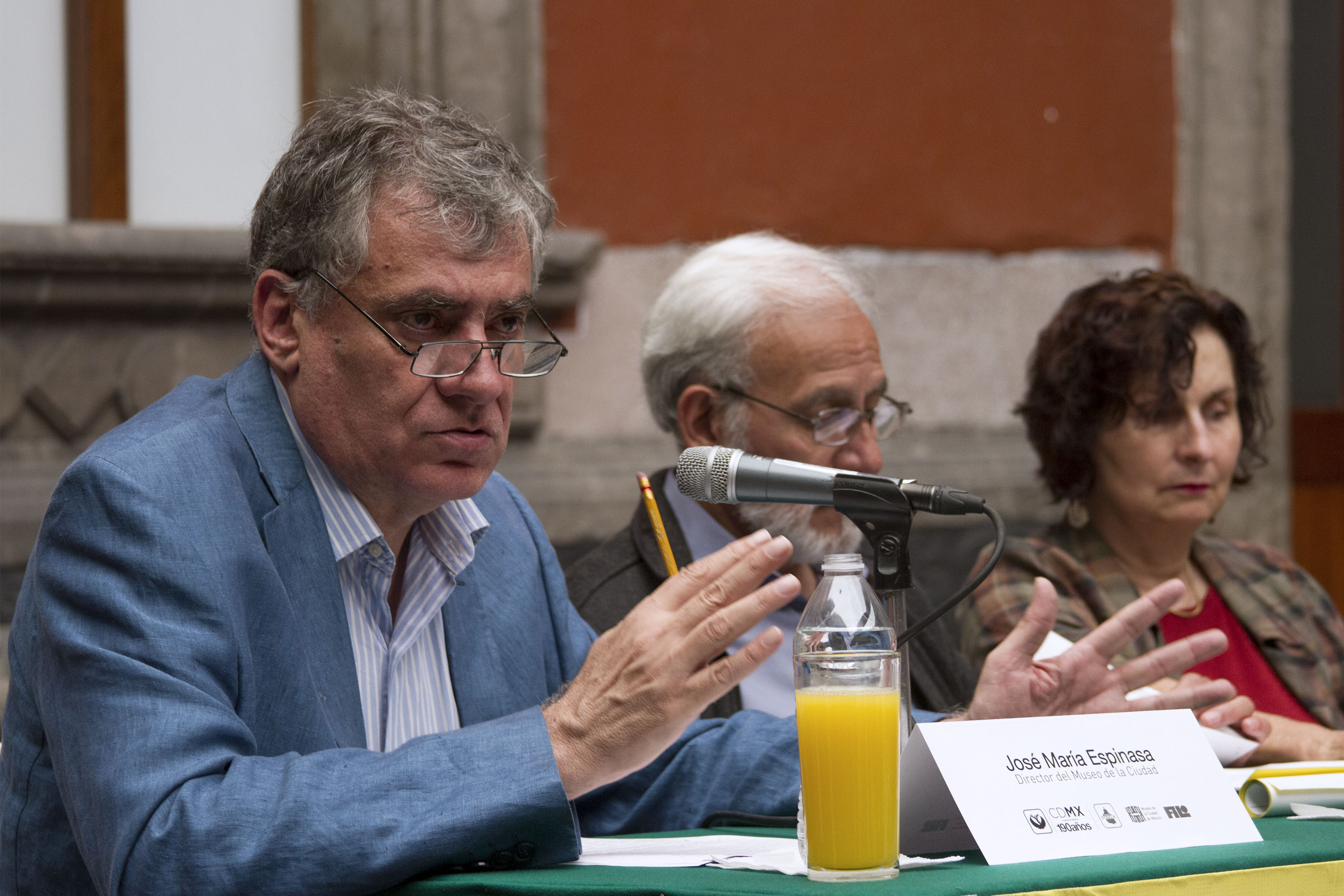 Lunes 03 de agosto de 2015. Con motivo del Primer Congreso de Cartón Político, Ilustradores y Dibujantes Filo 2015 que se celebrará el próximo 8 de agosto, el Museo de la Ciudad de México fue sede de la conferencia de prensa que inaugura la exposición El Ataque de los Hombre Verdes. Caricatura de Abel Quezada y Cartón Club. José María Espinasa, Director del Museo de la Ciudad; Ana Piñó Sandoval, Directora de difusión cultural Claustro de Sor Juana; Darío Castillejos Lázcares, Presidente Cartón club; Jorge Flores Manjarrez, Director Cartón club y Eduardo Barajas, filo 2015, fueron los encargados de destacar la importancia de la caricatura en el contexto histórico-político del país. Foto: Tania Victoria / Secretar’a de Cultura Ciudad de México.